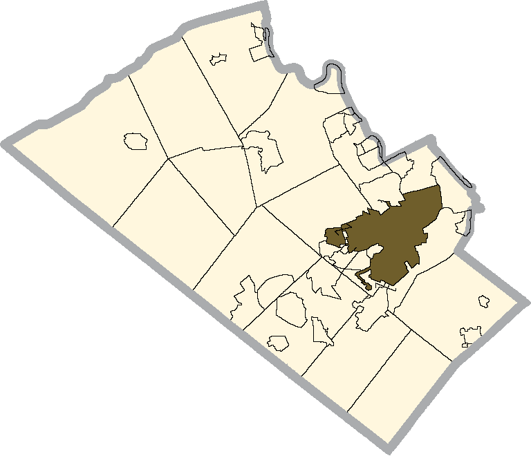 Allentown shaded on the map of Lehigh County.